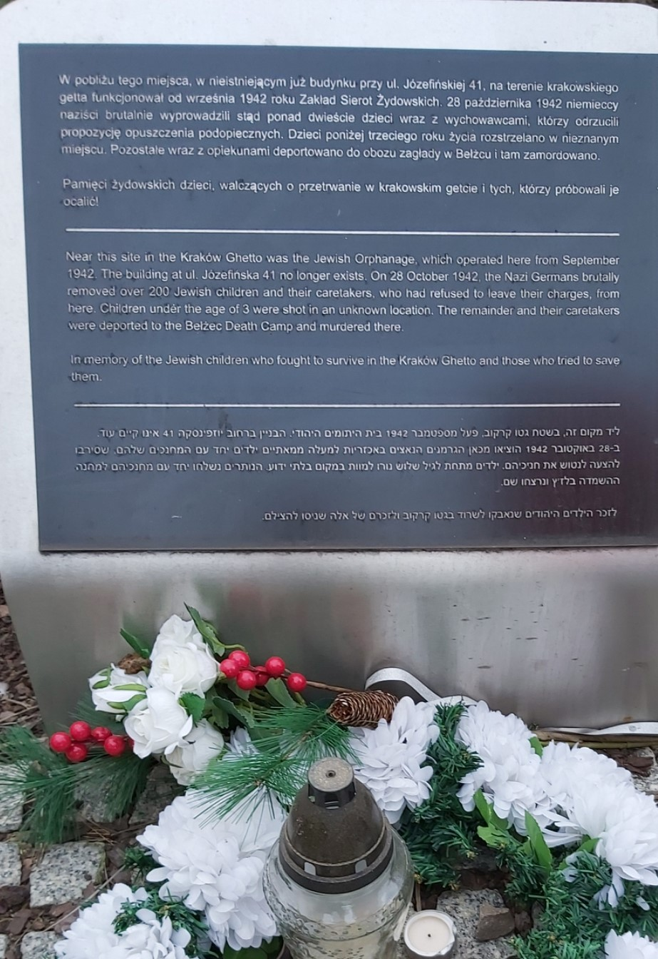 Krakow Ghetto Jewish Orphanage, 41 Jozefinska Street (ul. józefińska): memorial plaque for its founder and director Alter Dawid Kurtzmann and the children. Text in Polish, English, and Hebrew